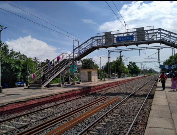 Nangi Railway Station